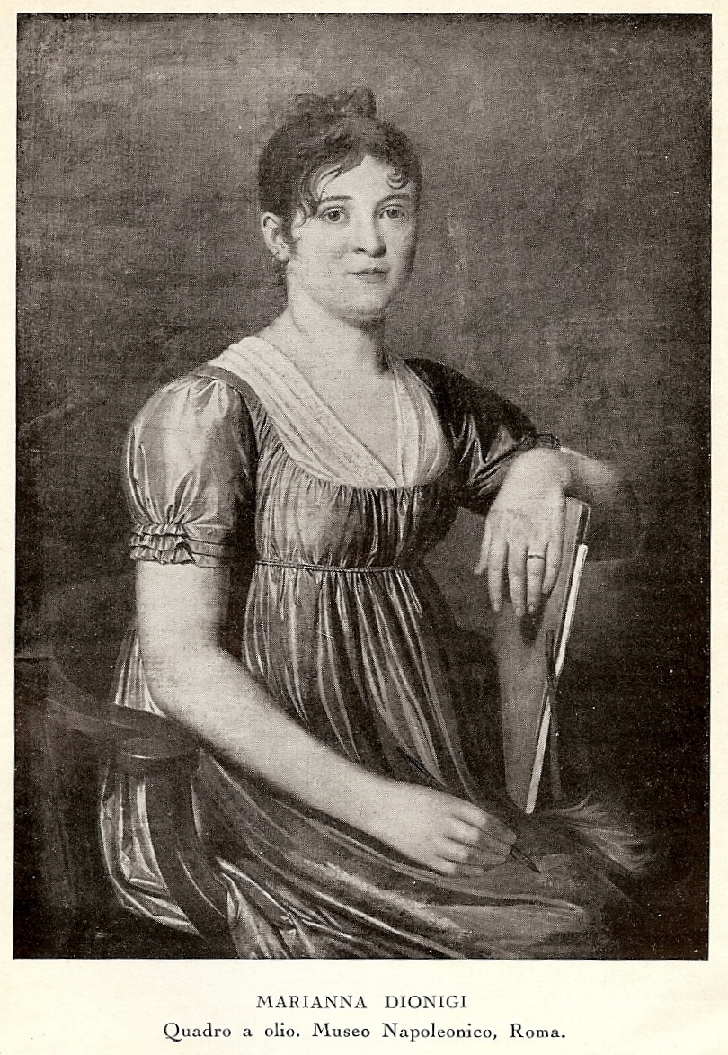 Marianna Dionigi - The picture is in the book: romantic Rome of Angels Diego printed in Milan by Fratelli Treves in 1935